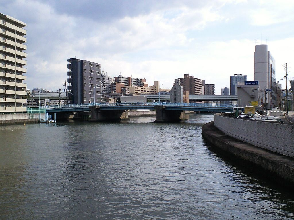 Kizugawa-bashi (Bridge), Nishi-ku, Osaka